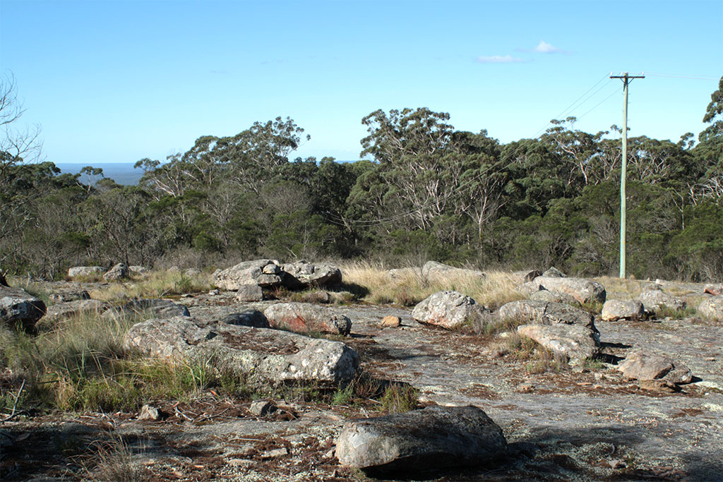 Peak of Mount Gibraltar NSW Australia showing exposed igneous rock platform. This is near Bowral